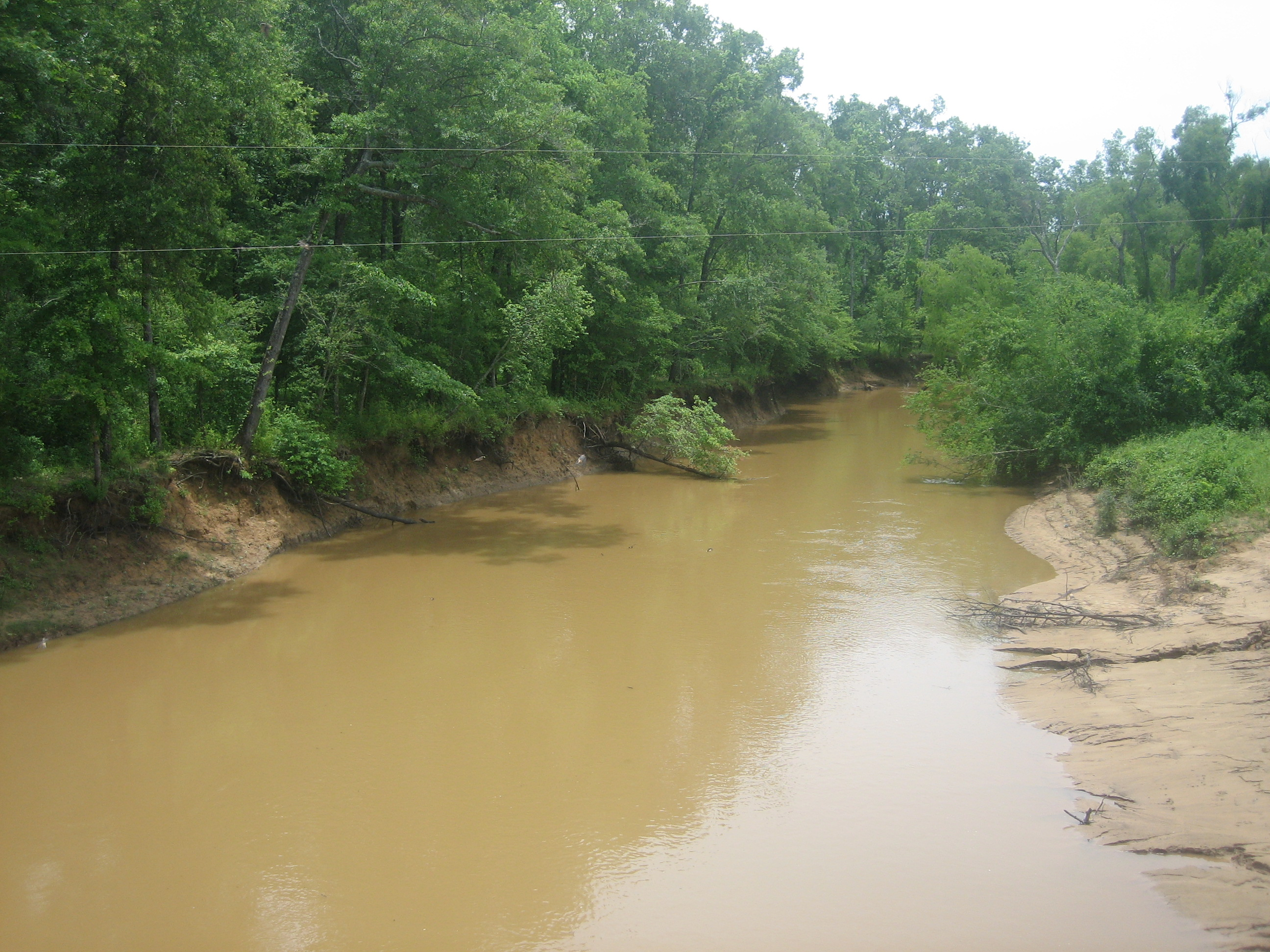 I took photo on May 27, 2009.Billy Hathorn (talk) 18:04, 31 May 2009 (UTC)